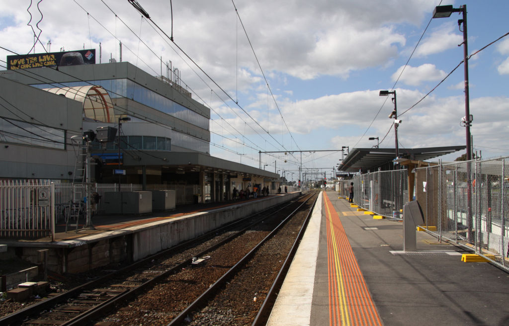 Looking in the down direction along the broad gauge suburban platforms 1 and 2 at Broadmeadows railway station, Melbourne. Used by Metro Trains Melbourne services to/from Craigieburn, as well as V/Line services to Shepparton and Seymour.